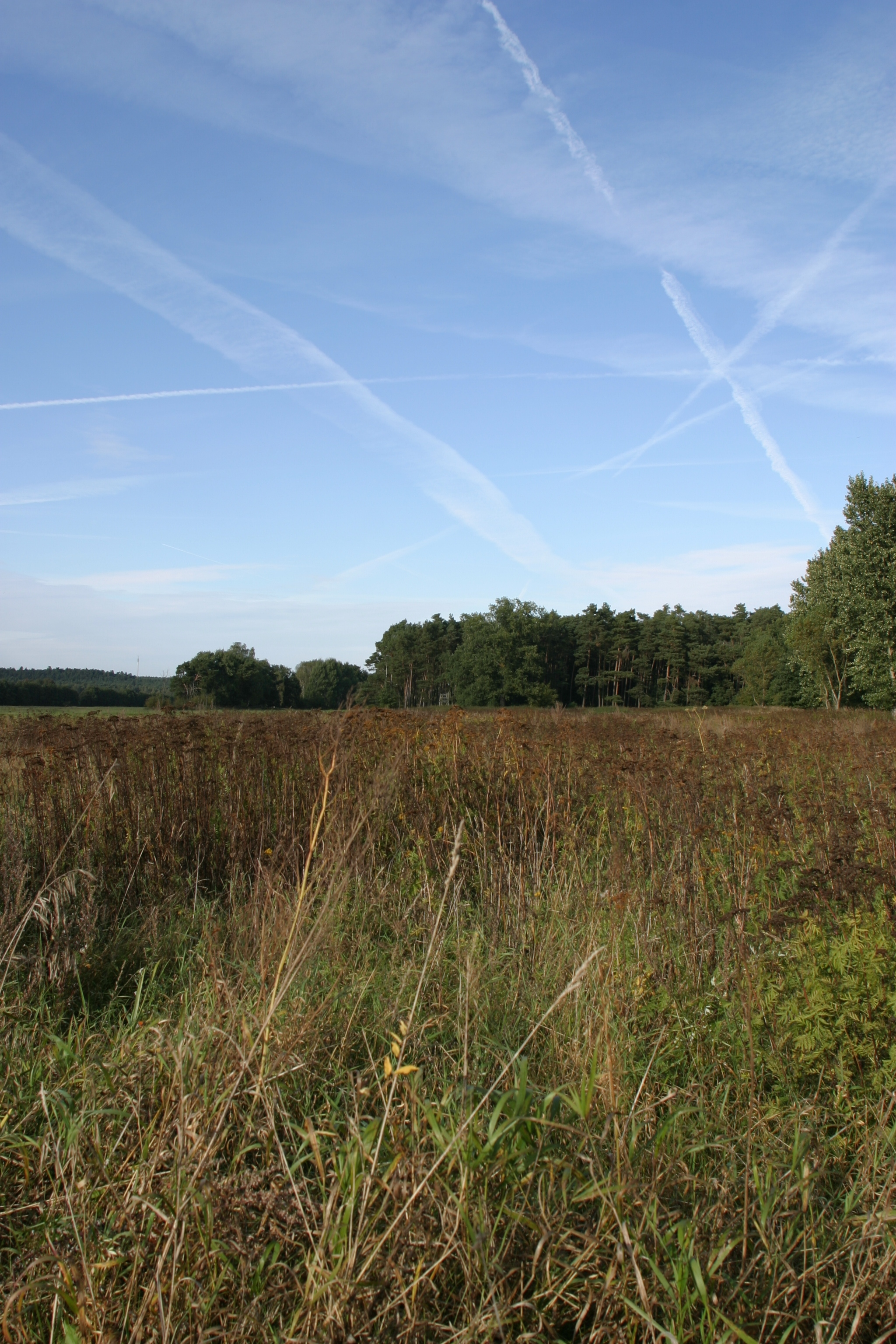 Traces of aviation over the "Red Glade" landscape.